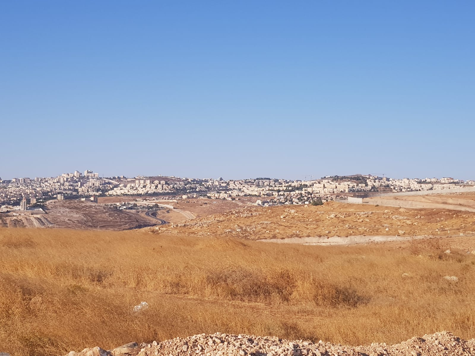 Jerusalem at a glance from Adam's settlement